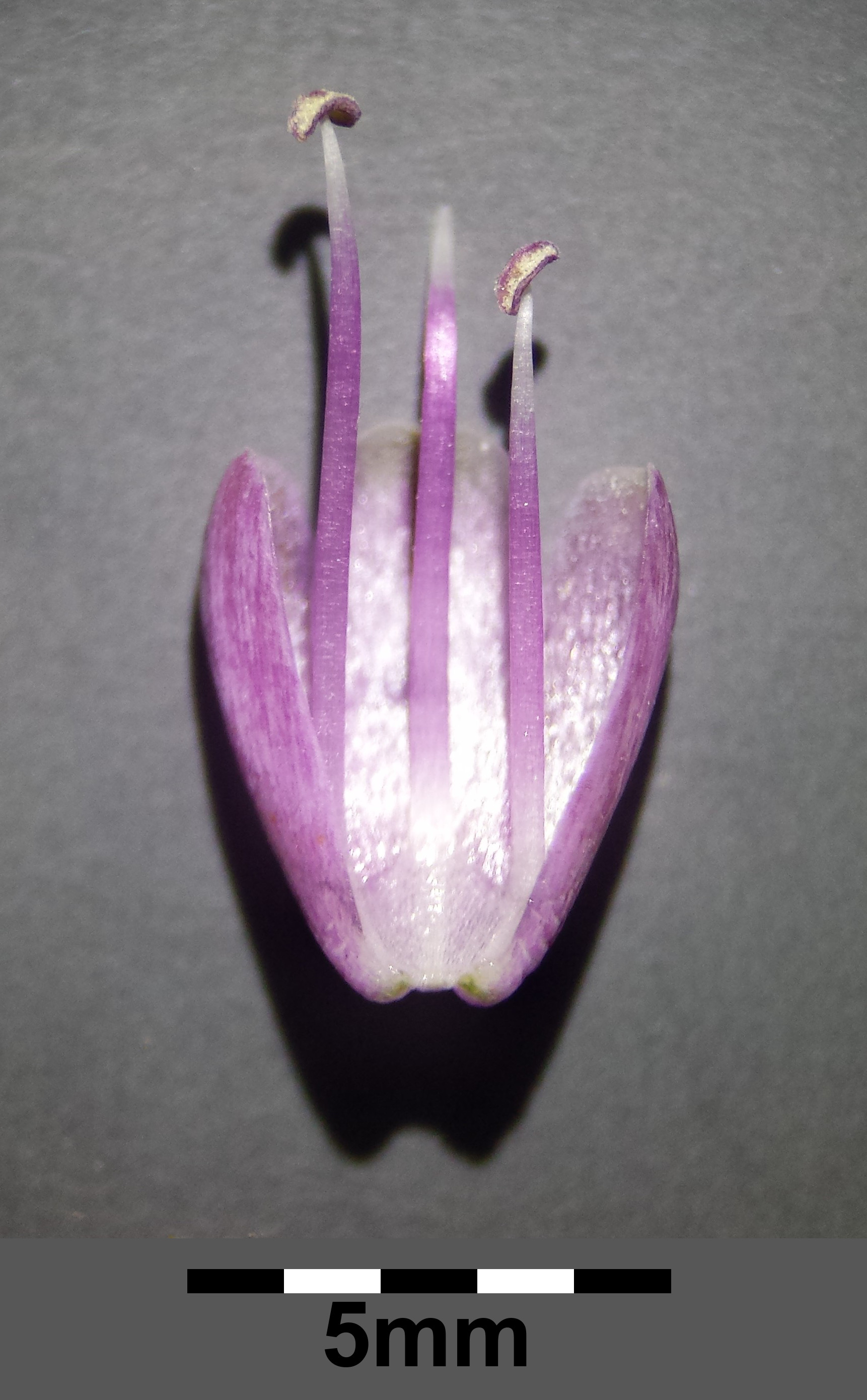 Perigone leaves (interior view) with stamina Taxonym: Allium carinatum subsp. carinatum ss Fischer et al. EfÖLS 2008 ISBN 978-3-85474-187-9 Location: Steinberg near Niederhollabrunn, district Korneuburg, Lower Austria - ca. 375 m a.s.l. Habitat: border of a shrubbery